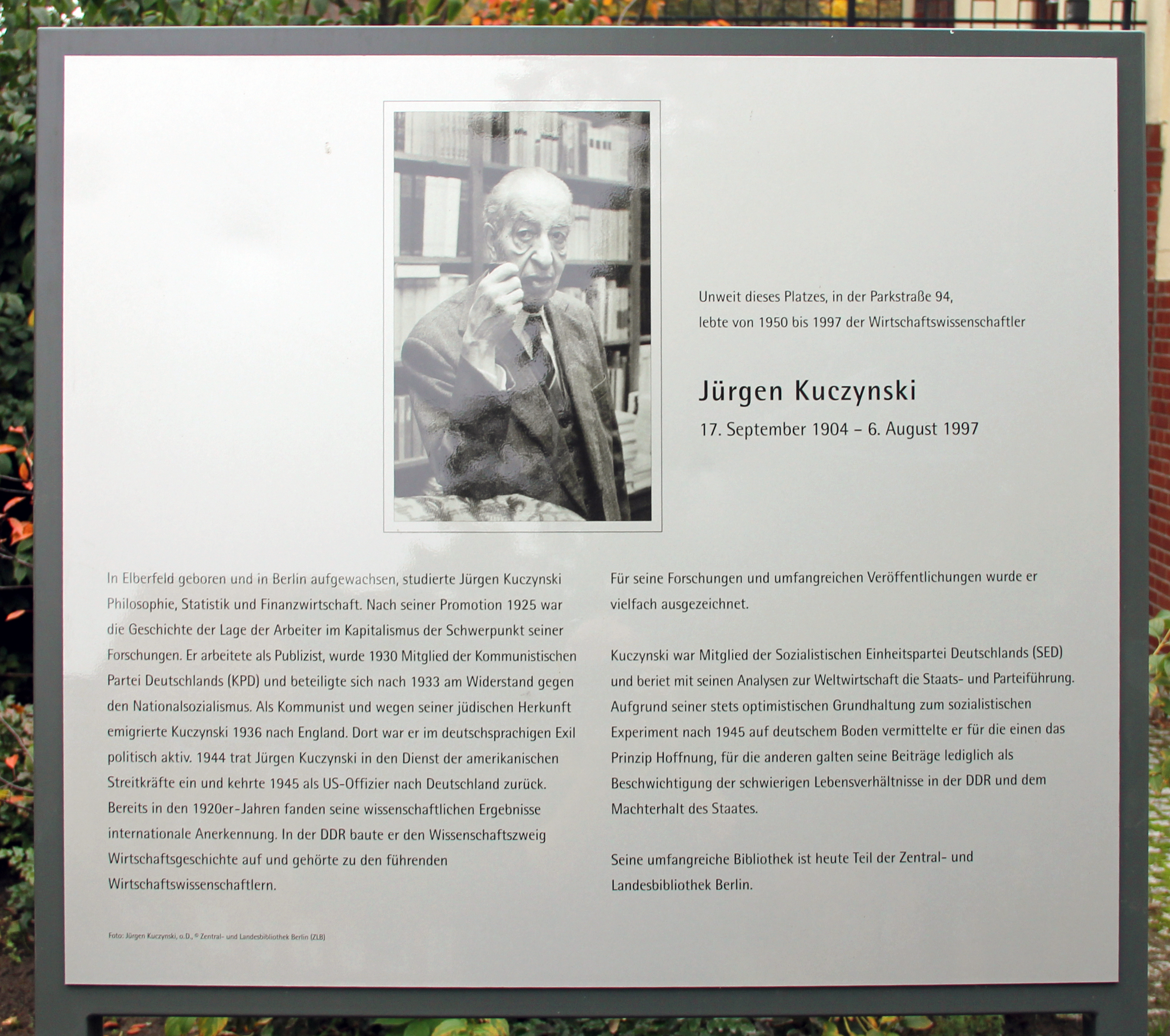 Memorial plaque, Jürgen Kuczynski, Pistoriusstraße 23, Berlin-Weißensee, Deutschland